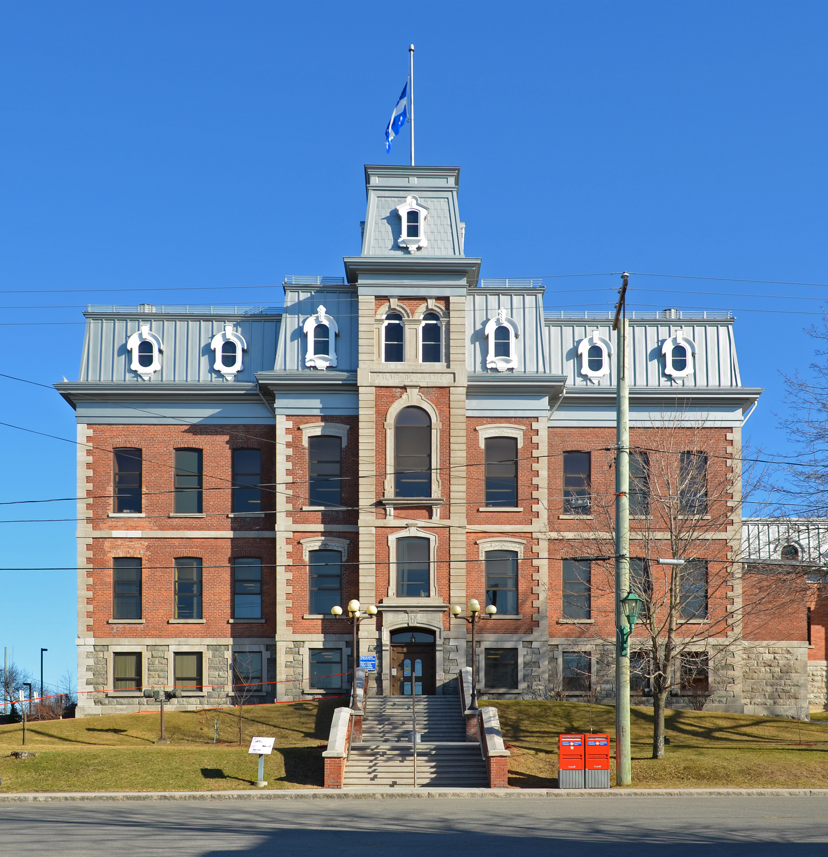 Courthouse - Rivière-du-Loup, Quebec